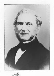 Georg Bernhard Eschenburg